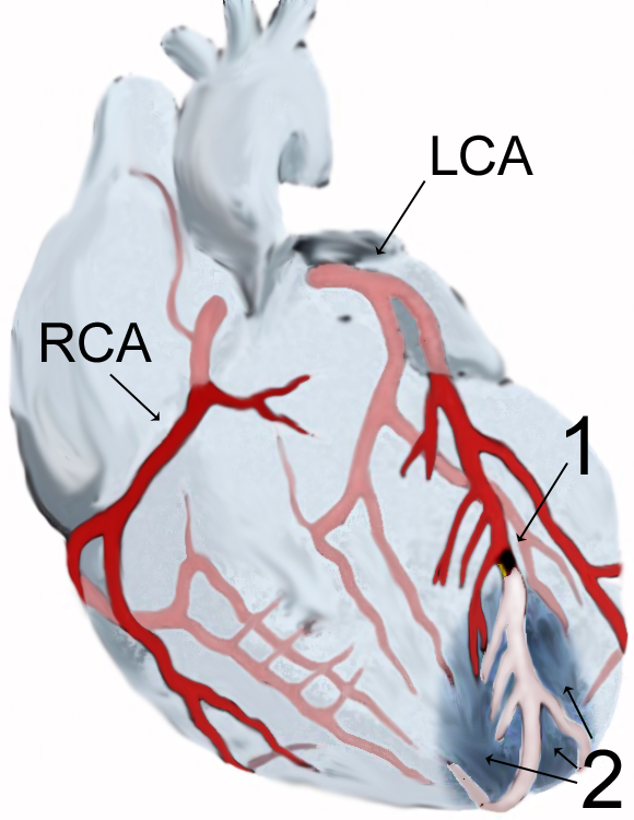 myocardial infarction - Myokardinfarkt - scheme